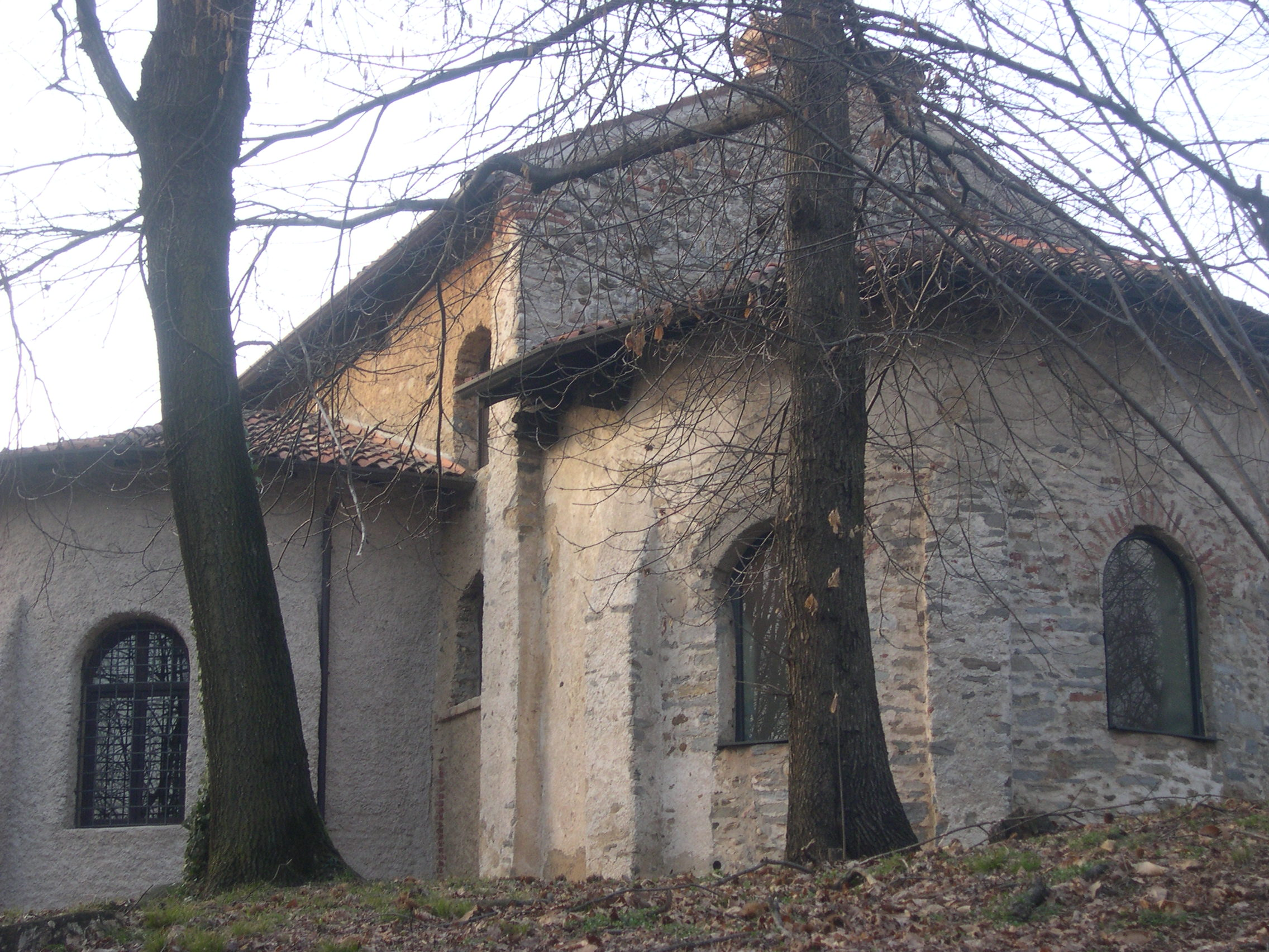 church of Santa Maria foris portas in Castelseprio